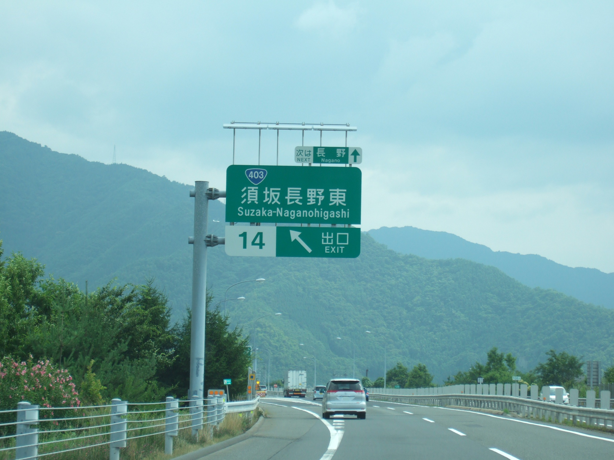 Sign for Suzaka-Naganohigashi Interchange on the Joshin-etsu Expressway inbound line